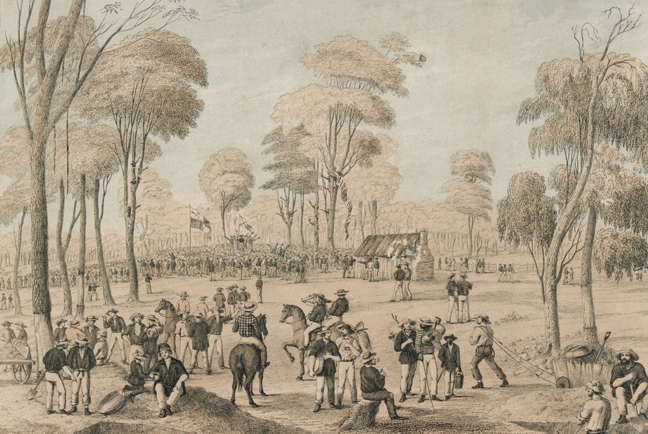 The Forest Creek Monster Meeting, a protest against license fees on the goldfields of Victoria, Australia. Print: engraving, col. ; 20.5 x 29.5 cm., on sheet 30.5 x 41.4 cm